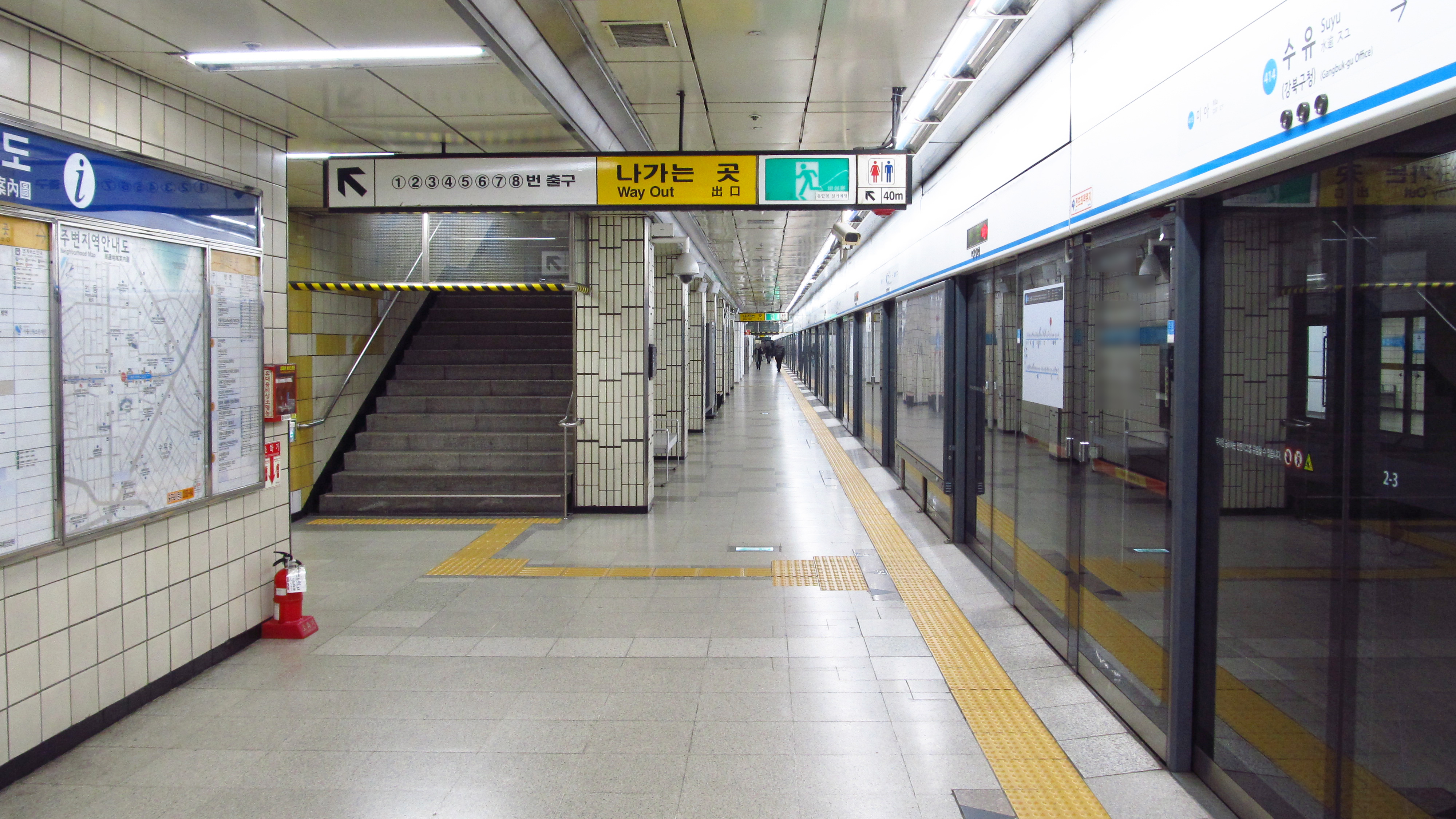 The platform at Suyu Station on Seoul Subway Line 4 in Gangbuk-gu, Seoul, Republic of Korea(South Korea)